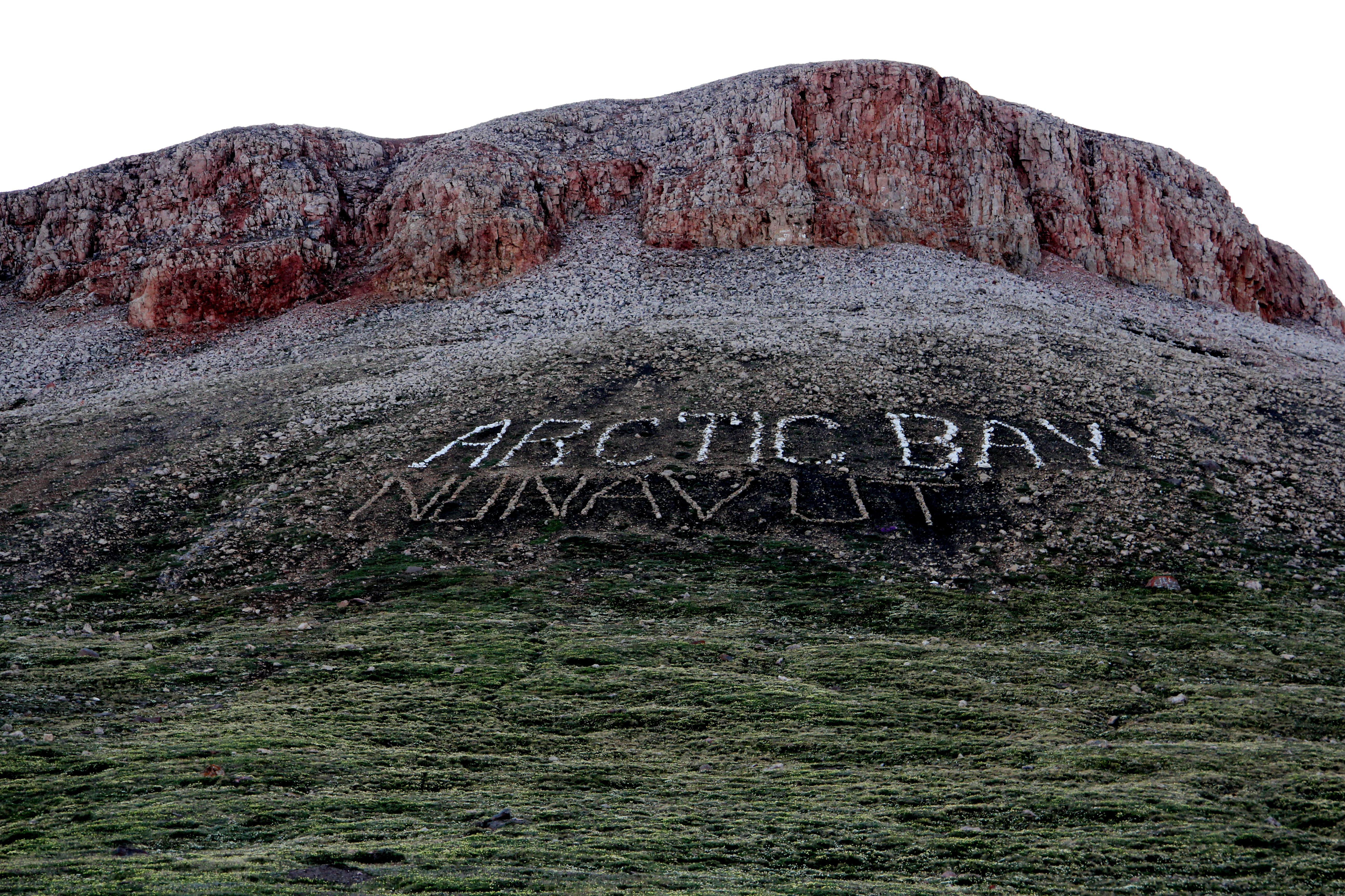 Laid out in rocks this welcome sign is located in the hills behind the village.